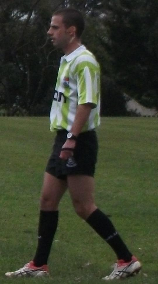 Referee Shane Rehm in control of Auckland v South Island at Cornwall Park